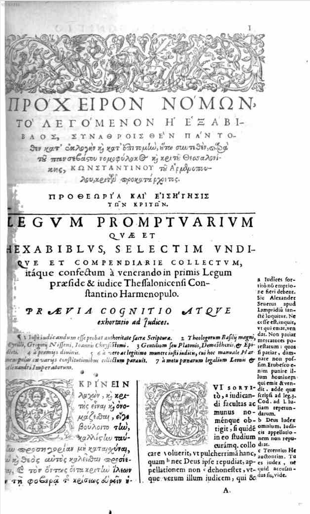 Front page of the Procheiron or Hexabiblos of Constantine Harmenopoulos(1320 - 1380/1385), Lyon 1587 edition by Jean Mercier, latin translation Hexabiblos was a Byzantine legal treatise of the 14th century, that continued to be widely used in the Balkan lands throughout the later Ottoman Empire's presence. At 1828, it was adopted by the newly founded Greek state as the state's civic code, where it remained so until 1946.